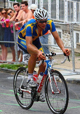 Cribbelandslag